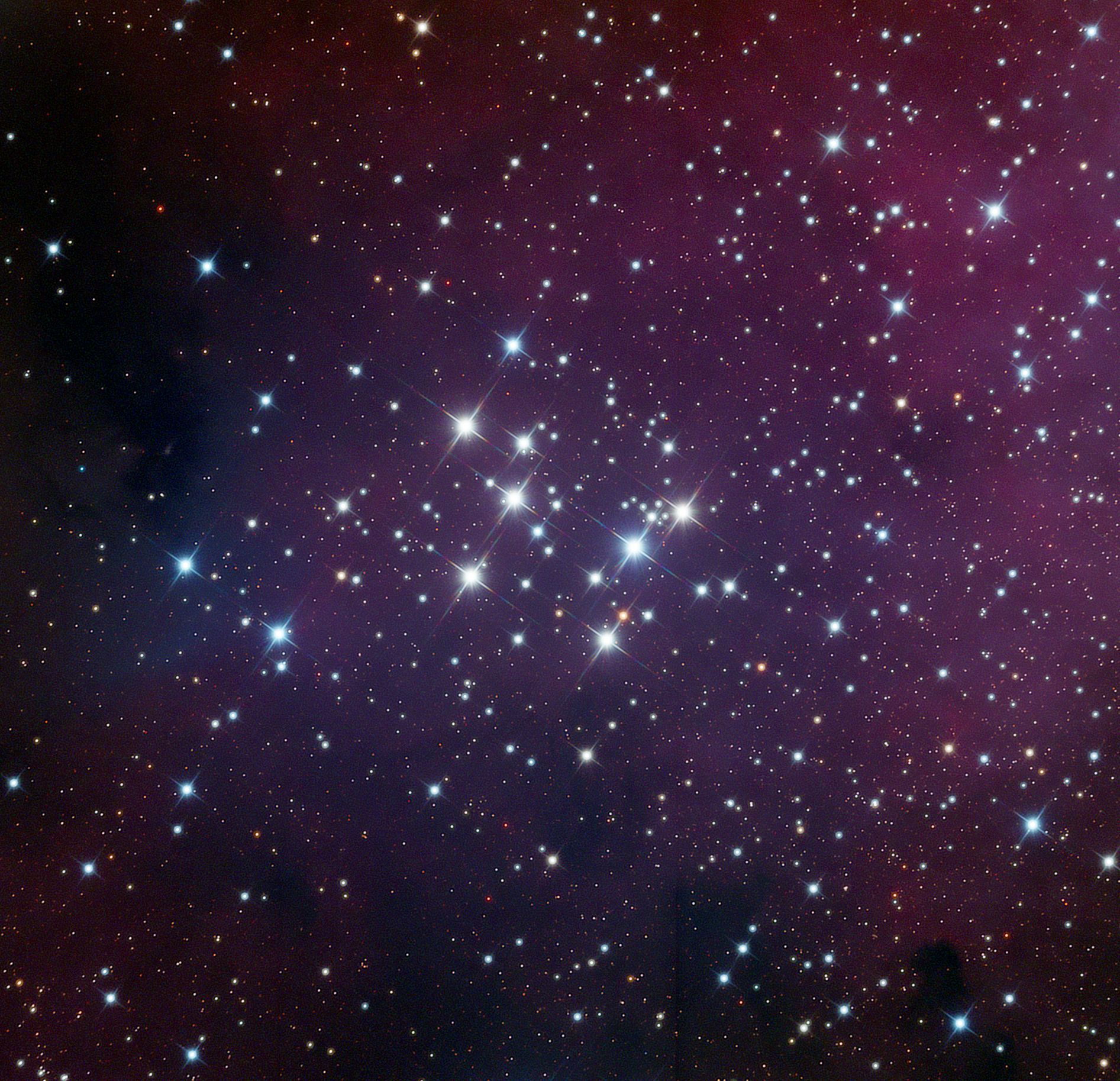 M29 (Messier 29) star cluster and nebulosity in 32 inch Schulman telescope